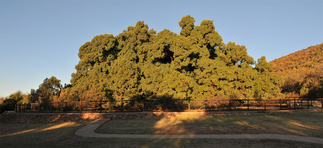 The Wonderboom grove in the Wonderboom Nature Reserve in Pretoria, South Africa